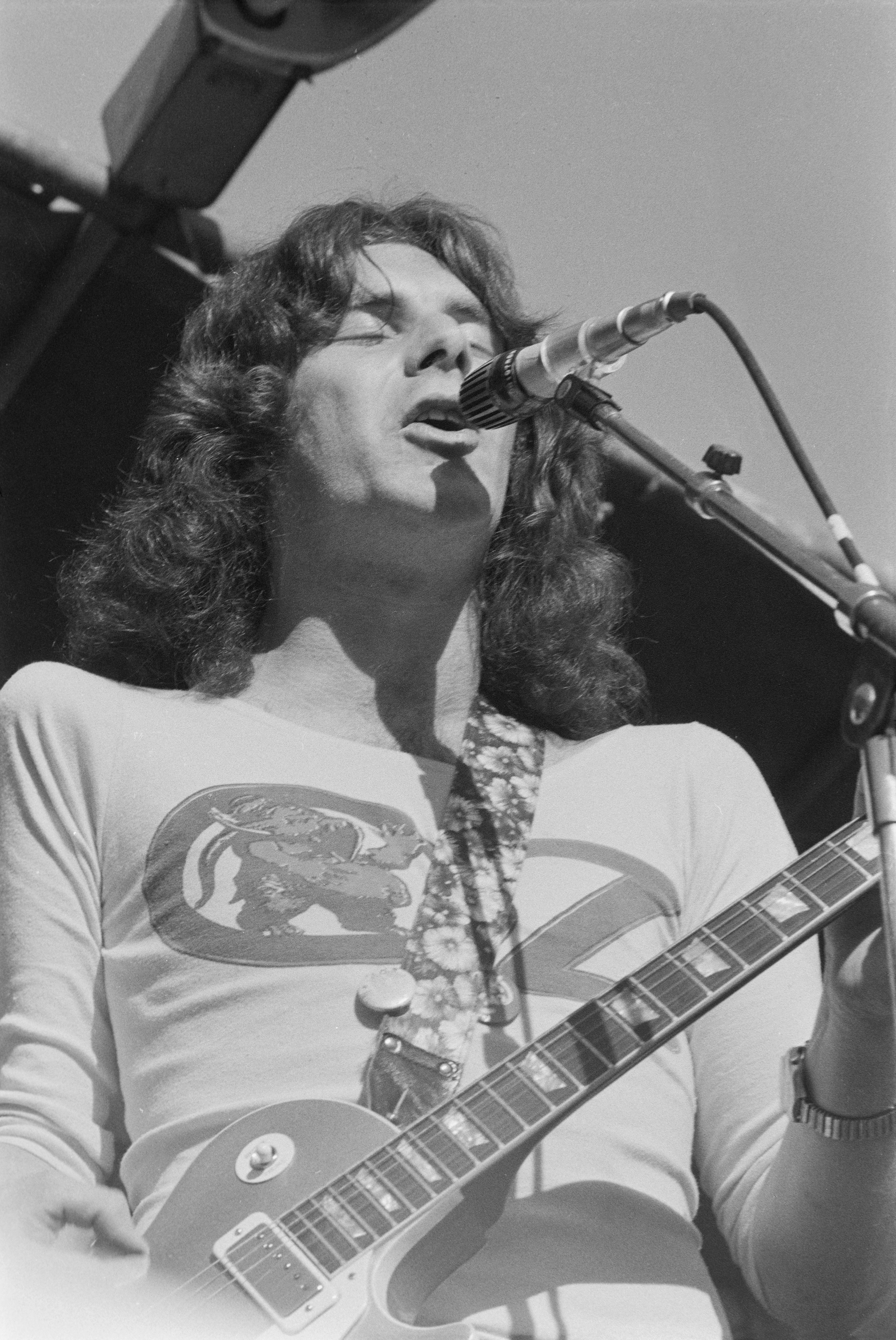 Photograph of the soloist (Paul Rudolph?) of Pink Fairies rock group at Ruisrock festival in Finland.